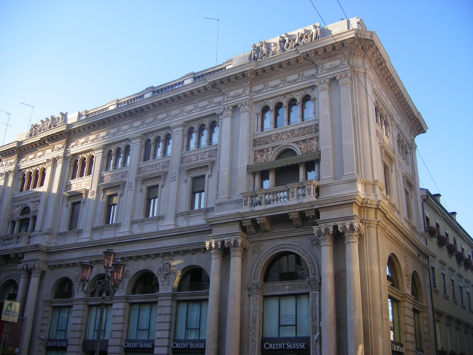 Treviso